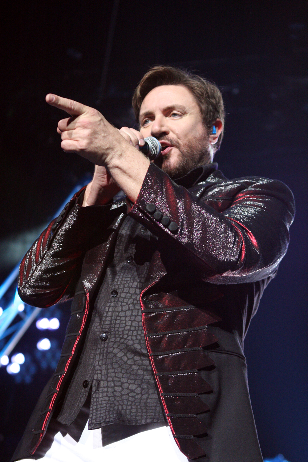 Duran Duran Rock Sydney Entertainment Centre, Australia